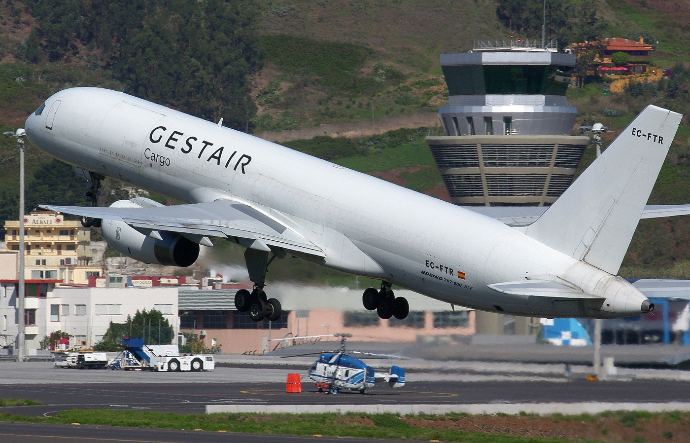 Gestair B757 taking-off from Tenerife North.